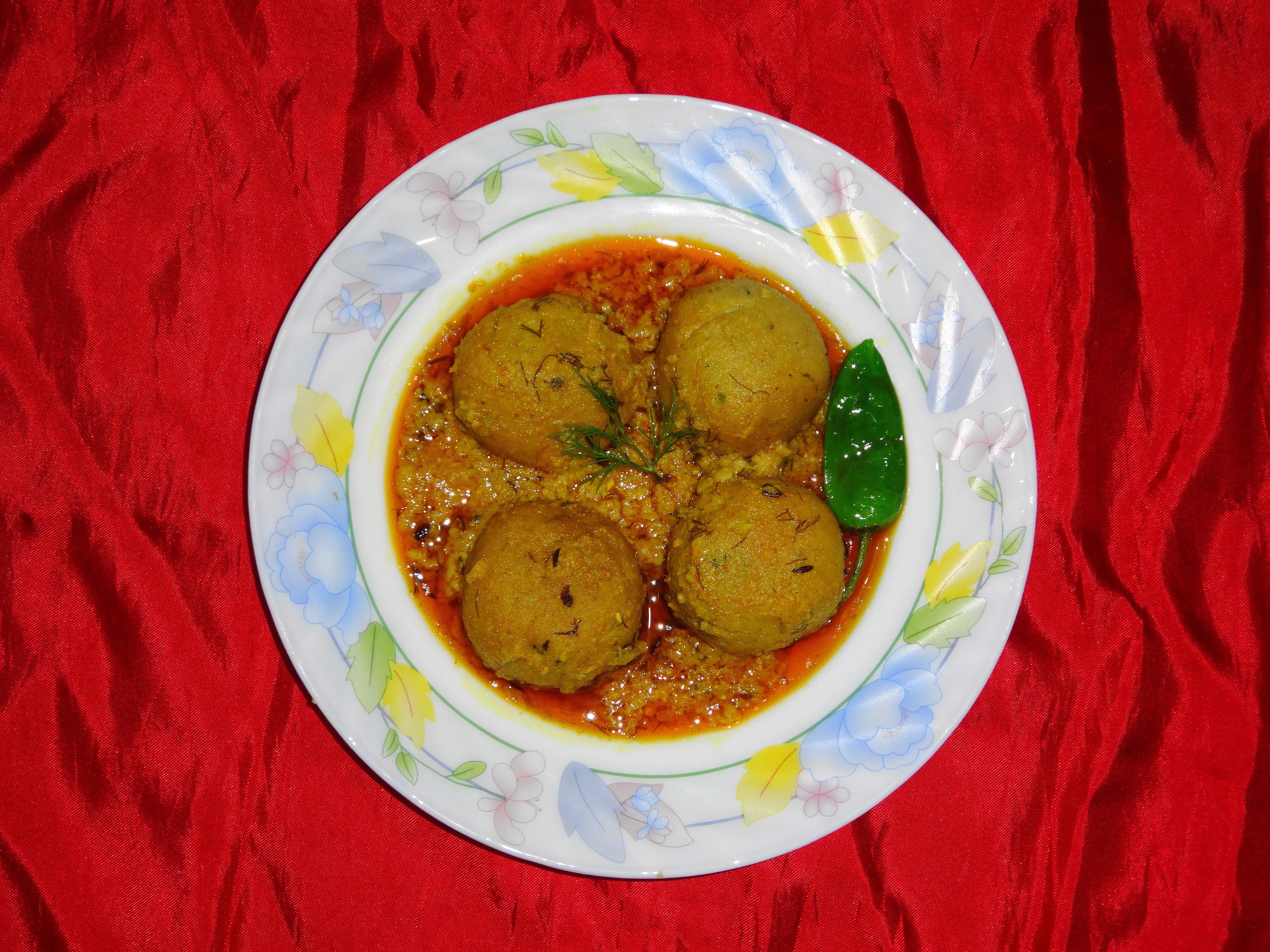 مچھلی کے کوفتے